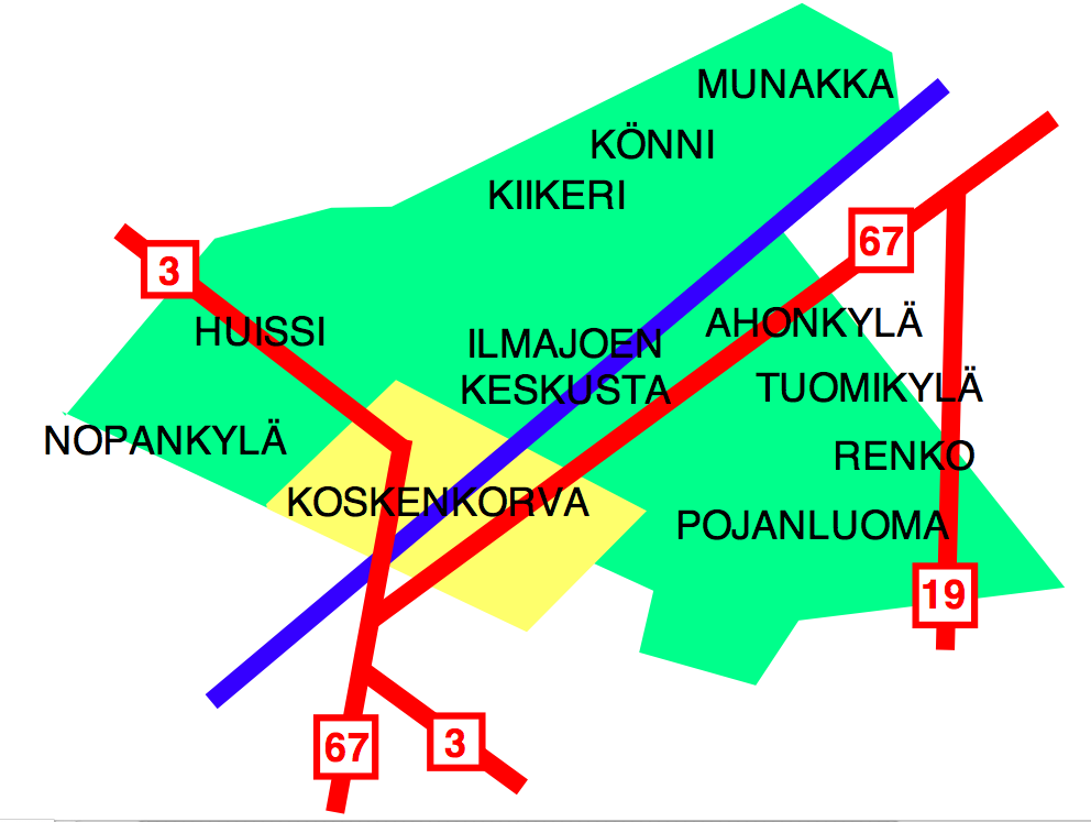 The location of the village Koskenkorva inside the community of Ilmajoki, including main roads and the Kyrönjoki river.